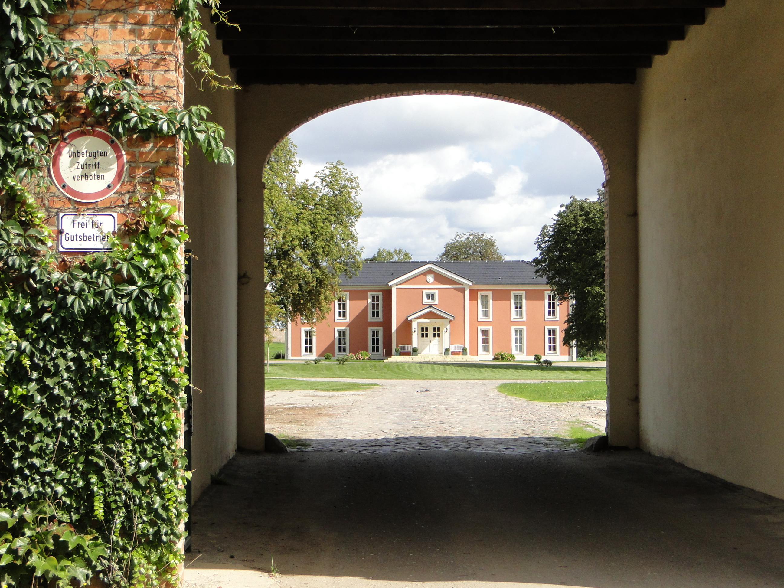 Gatehouse and manor house in Groß Flotow, district Mecklenburgische Seenplatte, Mecklenburg-Vorpommern, Germany